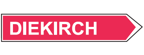 Diagram of road signs of Luxembourg